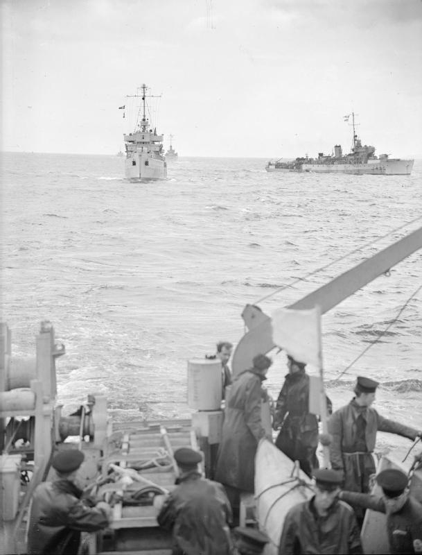 Auk class minesweeper HMS FOAM, left and Algerine class minesweeper HMS MAENAD, right, operating out of HMS LOCHINVAR, Granton, Scotland.